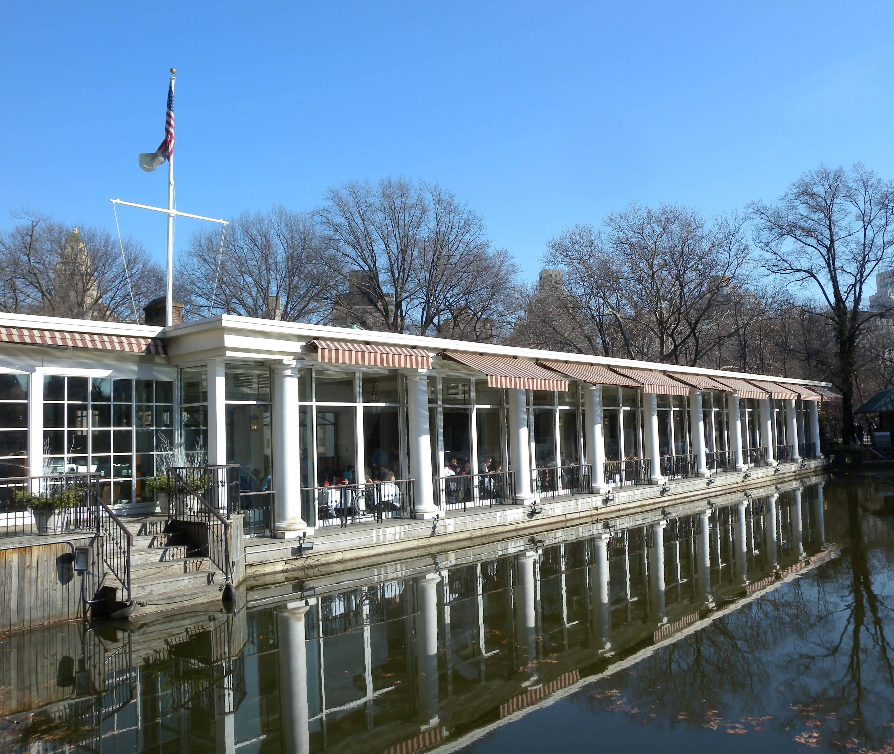 Looking southeast from big rock at lake side of Central Park's Loeb Boathouse on a chilly, sunny afternoon. EXIF date is mistaken due to photographer's error.